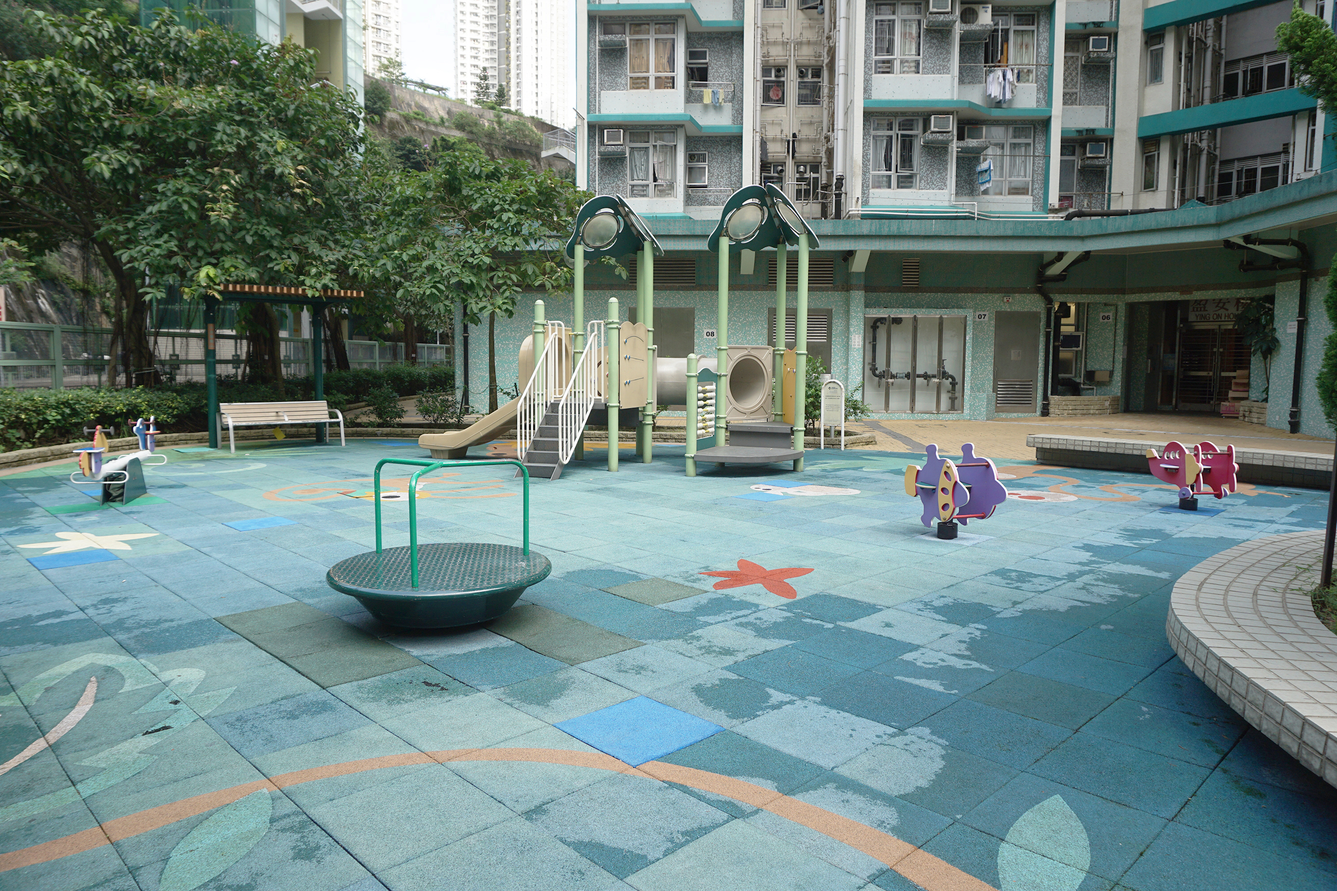 Choi Ying Estate in Kowloon Bay, Hong Kong.